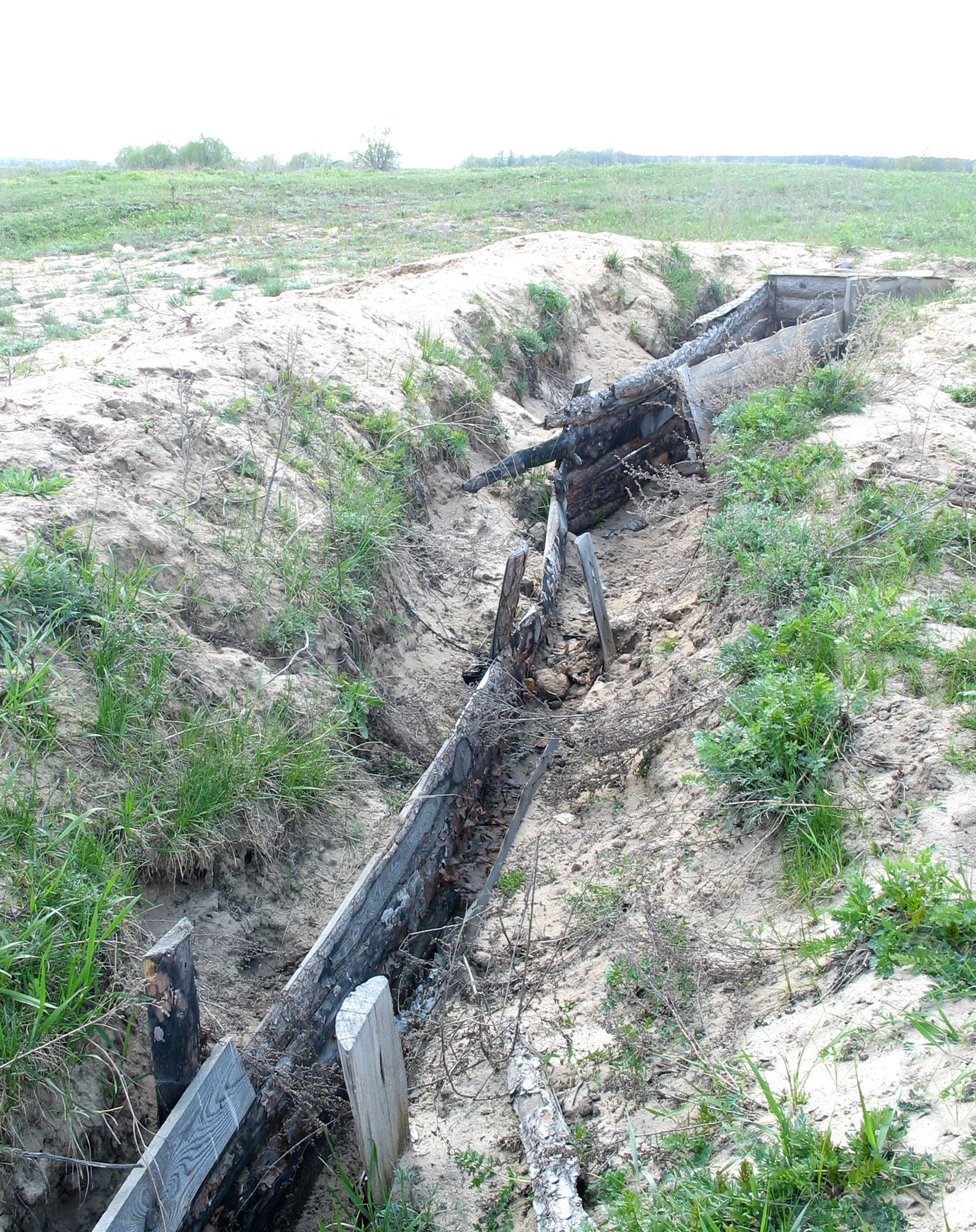 Remainder of entrenchment of times of Battle of Moscow (1941-1942) (Great Patriotic War). The left coast of Oka near Kashira (Moscow Region)